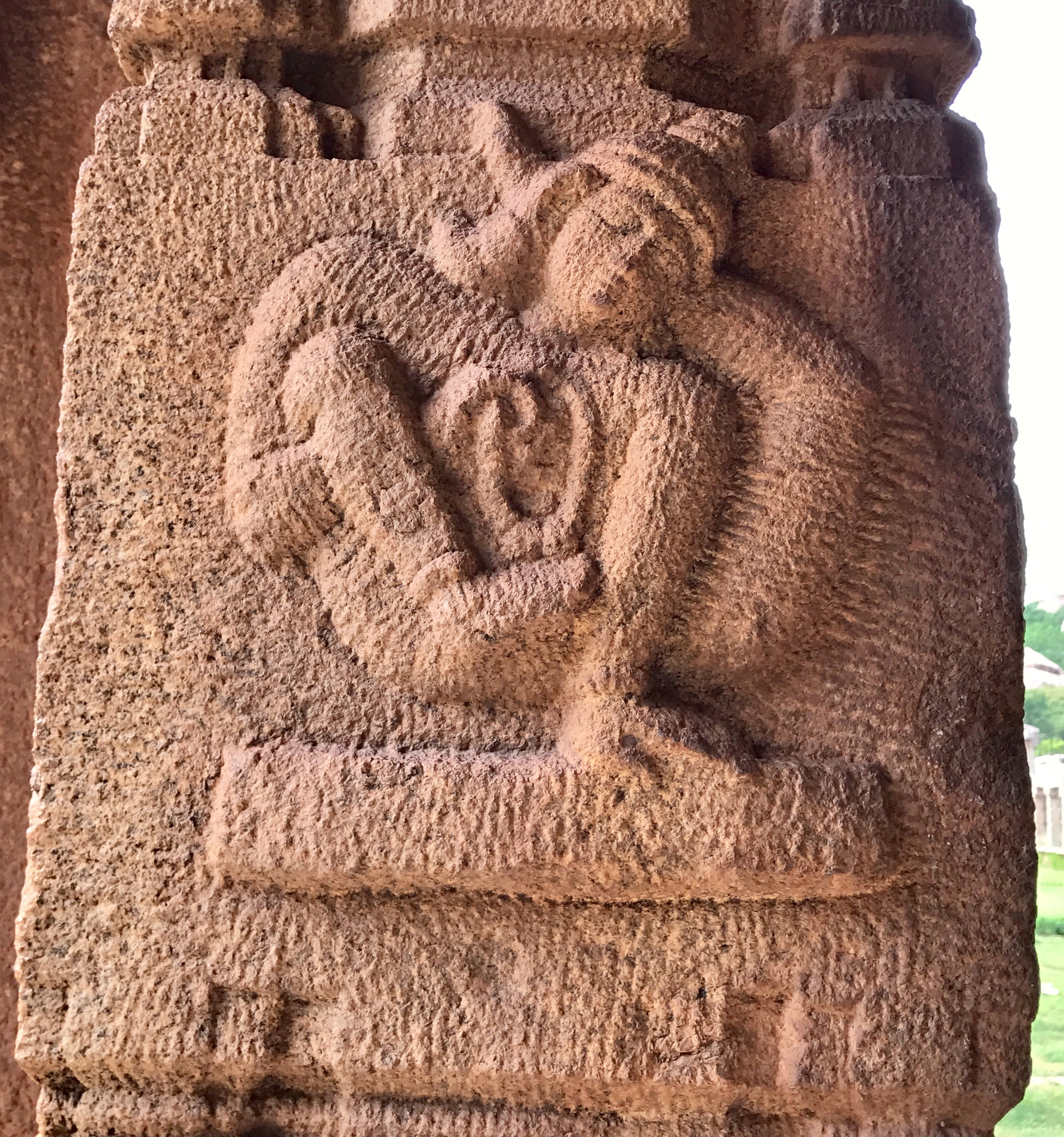 Achyutaraya temple, also called Tiruvengalanatha temple, was completed by early 16th century. A Vaishnavism temple, it had a large market. Both are now in ruins. The temple complex has closed and open square mandapas, a 100 pillar hall (10x10), and it includes Shaivism and Shaktism images, such as carved images of Lakshmi and Kali. Mini reliefs show legends from Ramayana, Mahabharata and Bhagavata Purana. Numerous Yoga asanas particularly Hatha yoga and meditating yogis in namaste pose are seen in the reliefs of pillared halls. Hampi ruins and monuments date to pre-17th century period of South Indian history, particularly those related to the Hindu Vijayanagara Empire era (14th-16th centuries). The site consists of numerous ruins and temples over a large area, the most visited and studied are those located near the Tungabhadra river. The town derives its name from the Pampa Devi Hindu mythology in Sanskrit, with Pampa morphing into Hampa in Kannada, then Hampi. The city served as capital of the Vijayanagara rulers, was pillaged, ruined and abandoned after Muslim armies of a Sultanate coalition attacked and defeated it. In the modern era, it serves as an archaeological site and is a UNESCO world heritage site.